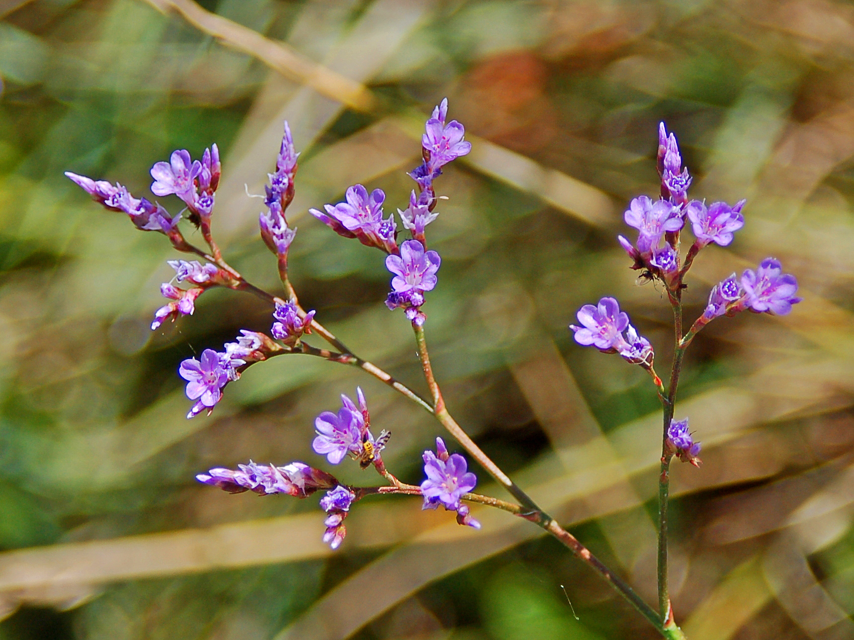 Flowers of Limonium narbonense. Isola della Cona, Trieste, Italy